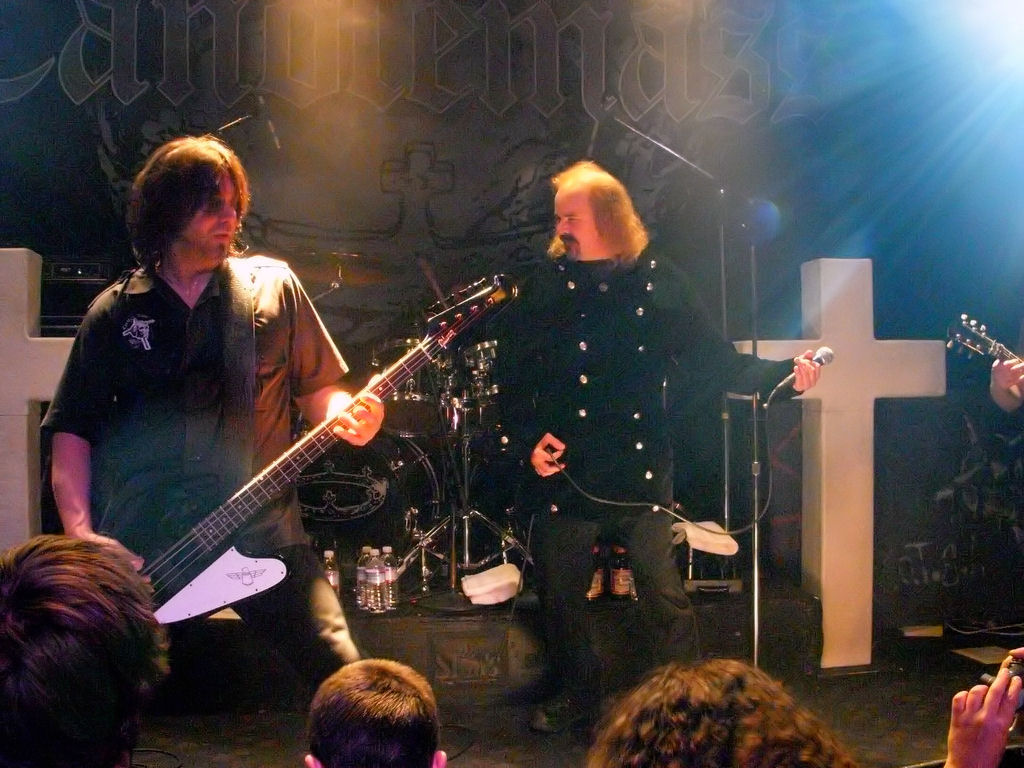 Leif Edling and Robert Lowe of Swedish Heavy metal band Candlemass